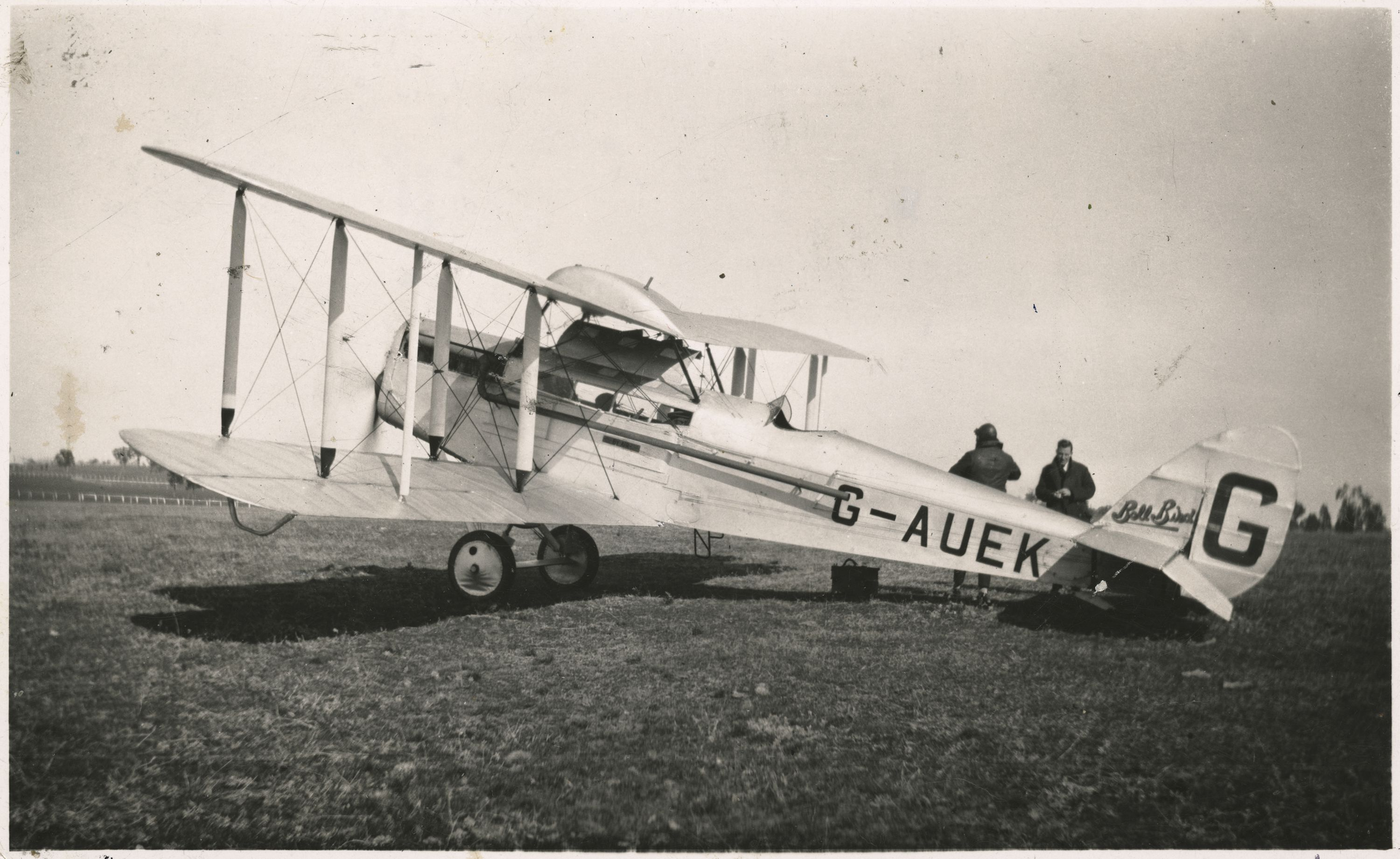 Part Of: Powerhouse Museum Collection General information about the Powerhouse Museum Collection is available at Persistent URL